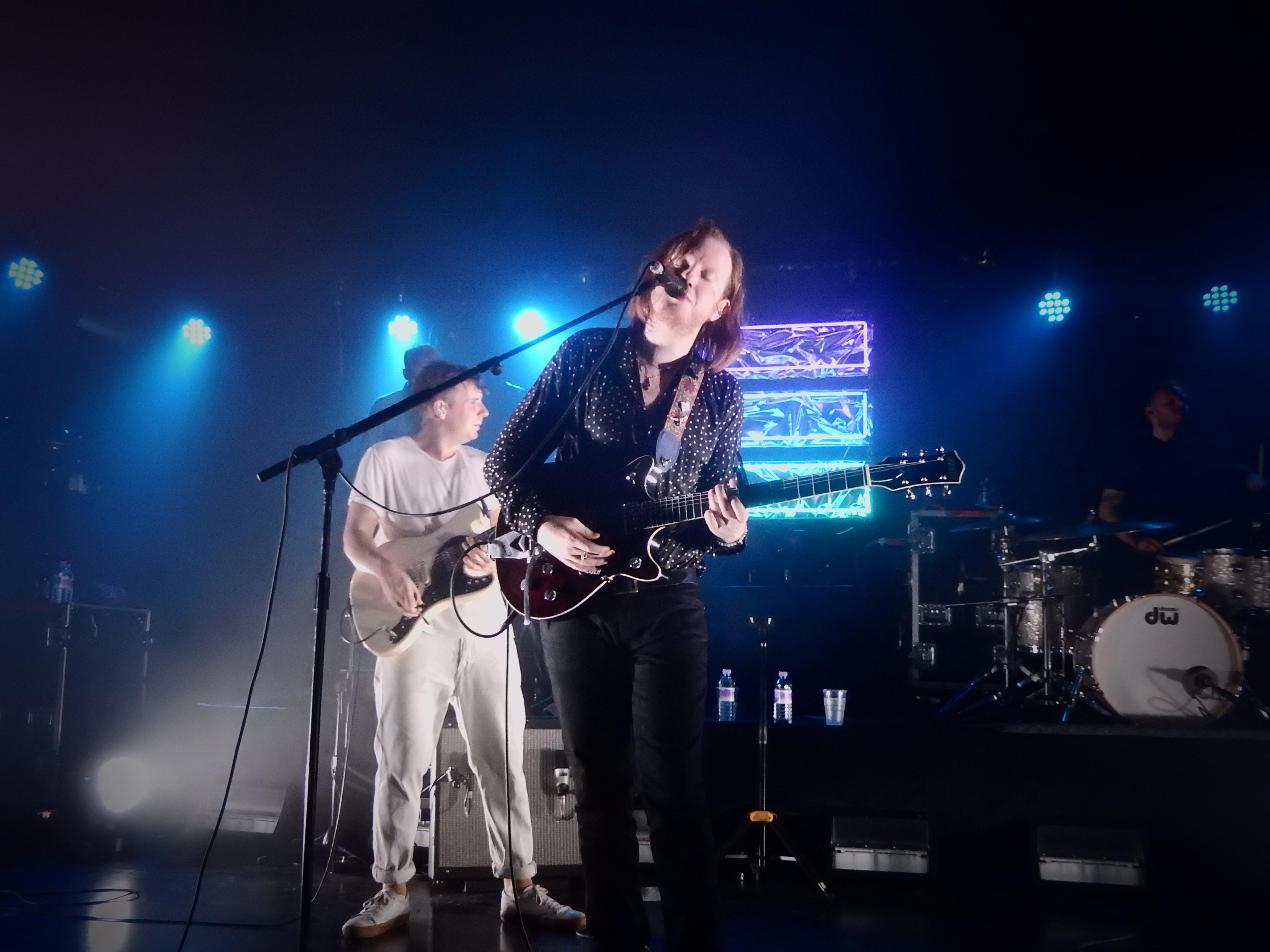 Two Door Cinema Club, Tufnell Park Dome, London